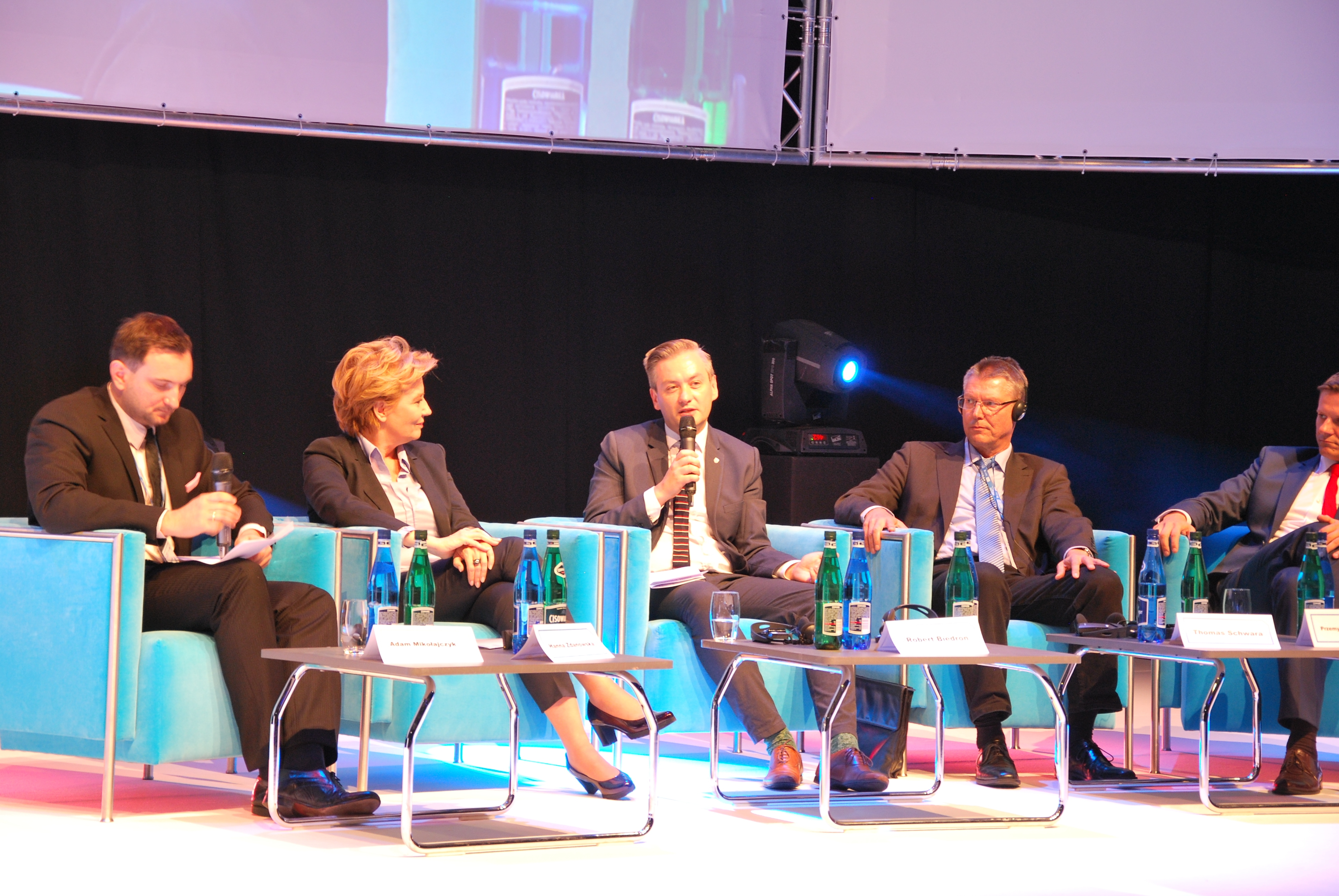 Experts panel, Łódź VIII European Economic Forum, October 2015